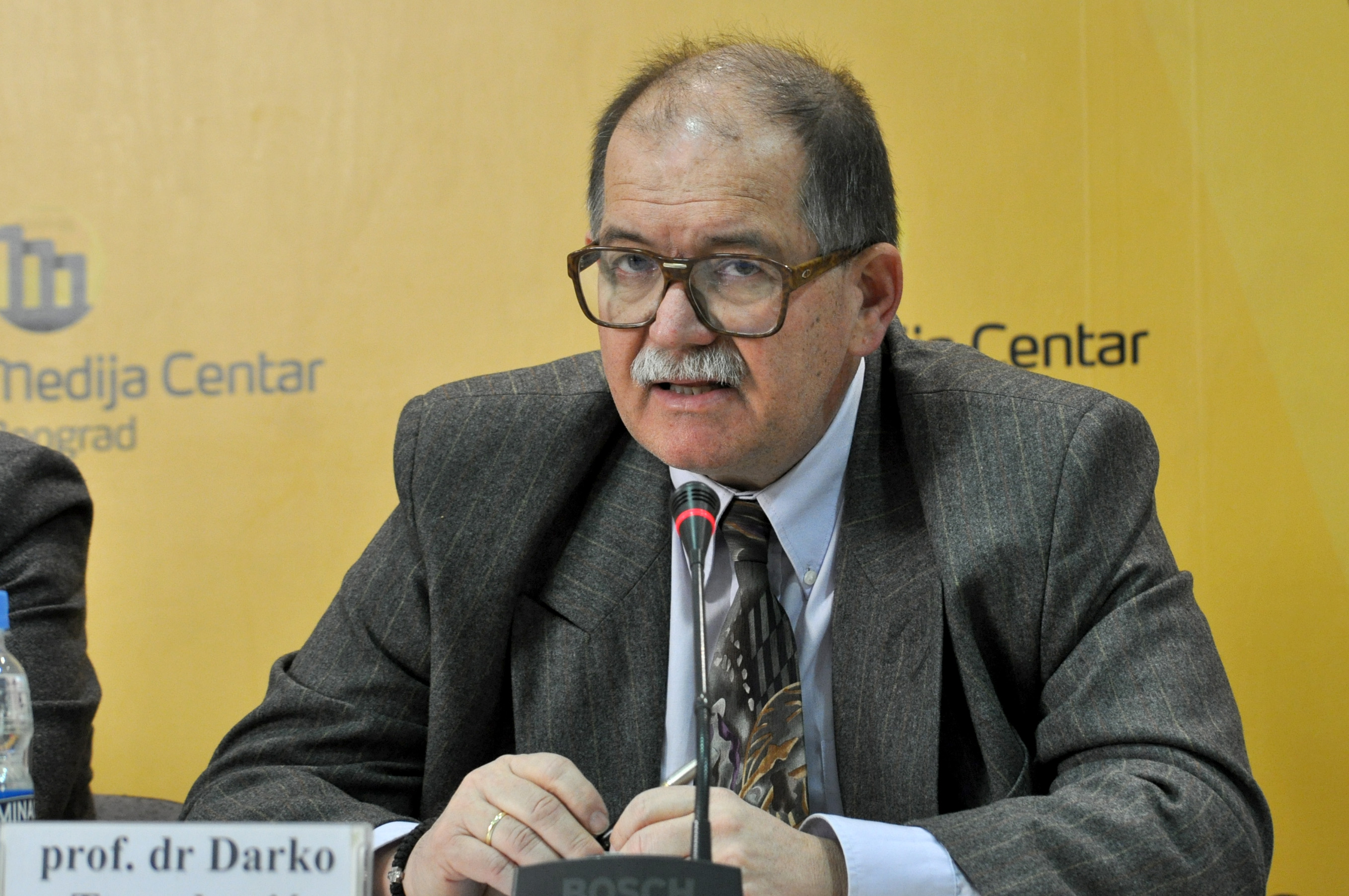 Darko Tanasković